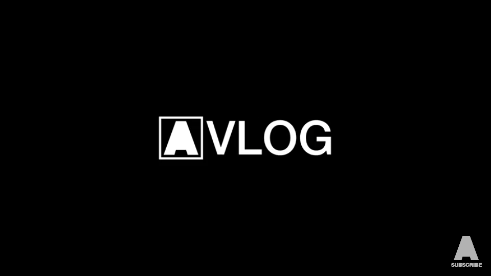 Armin vlog.